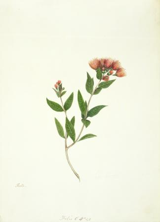 A watercolour of New Zealand rata by Martha King, created in 1842 for the New Zealand Company.